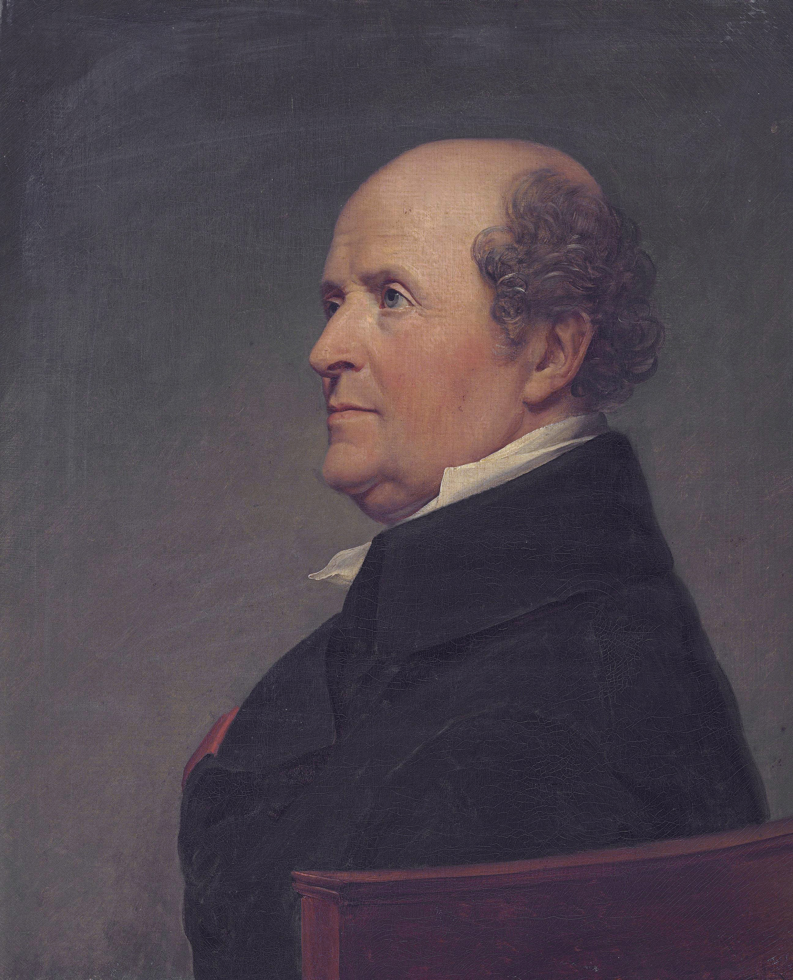 Doctor Antoine Dubois (1756-1837), bust-length, in a blue coat.